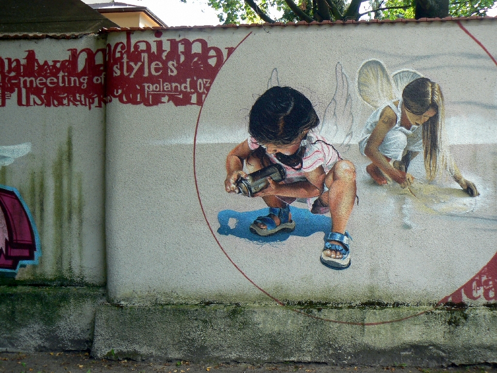 Grffiti printed during Meeting of Styles 2003 Bełchatów (Poland)